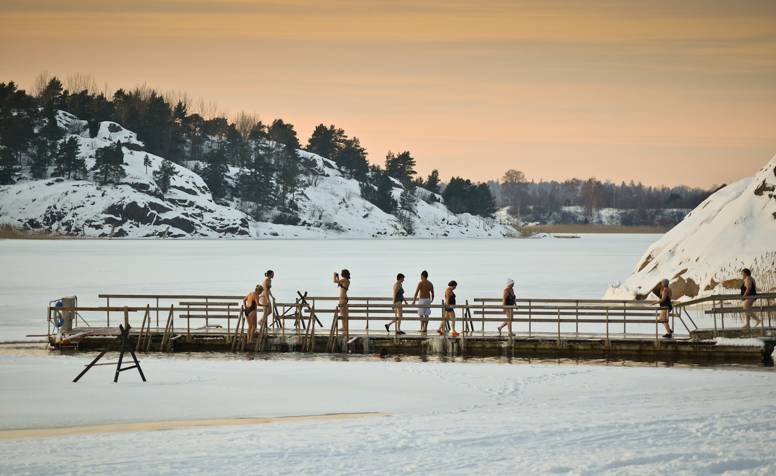 Ice Swimming at the Uittamo beach in Turku, Finland, in January 2012